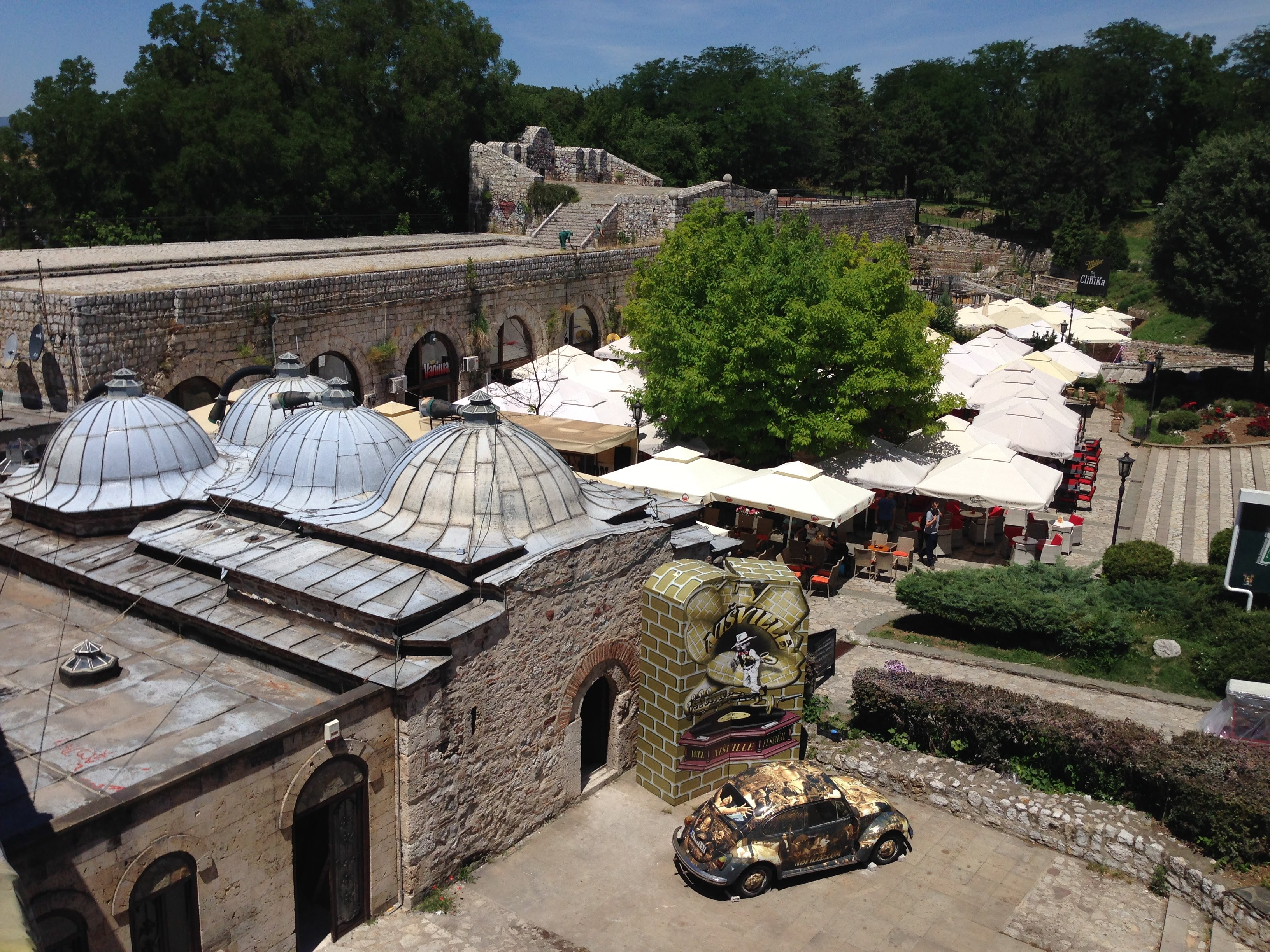 Nisville Jazz Museum.